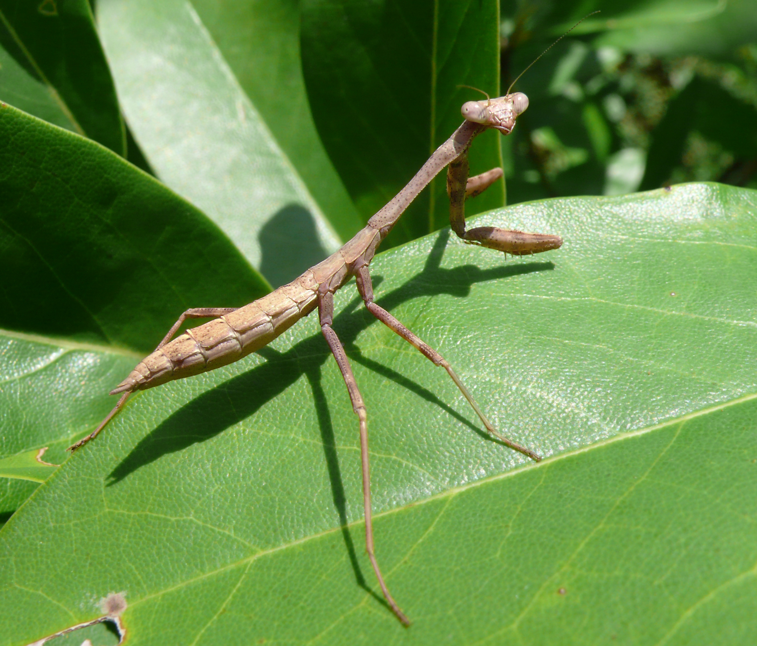 Juvenile Stagmomantis carolina - Carolina Mantis